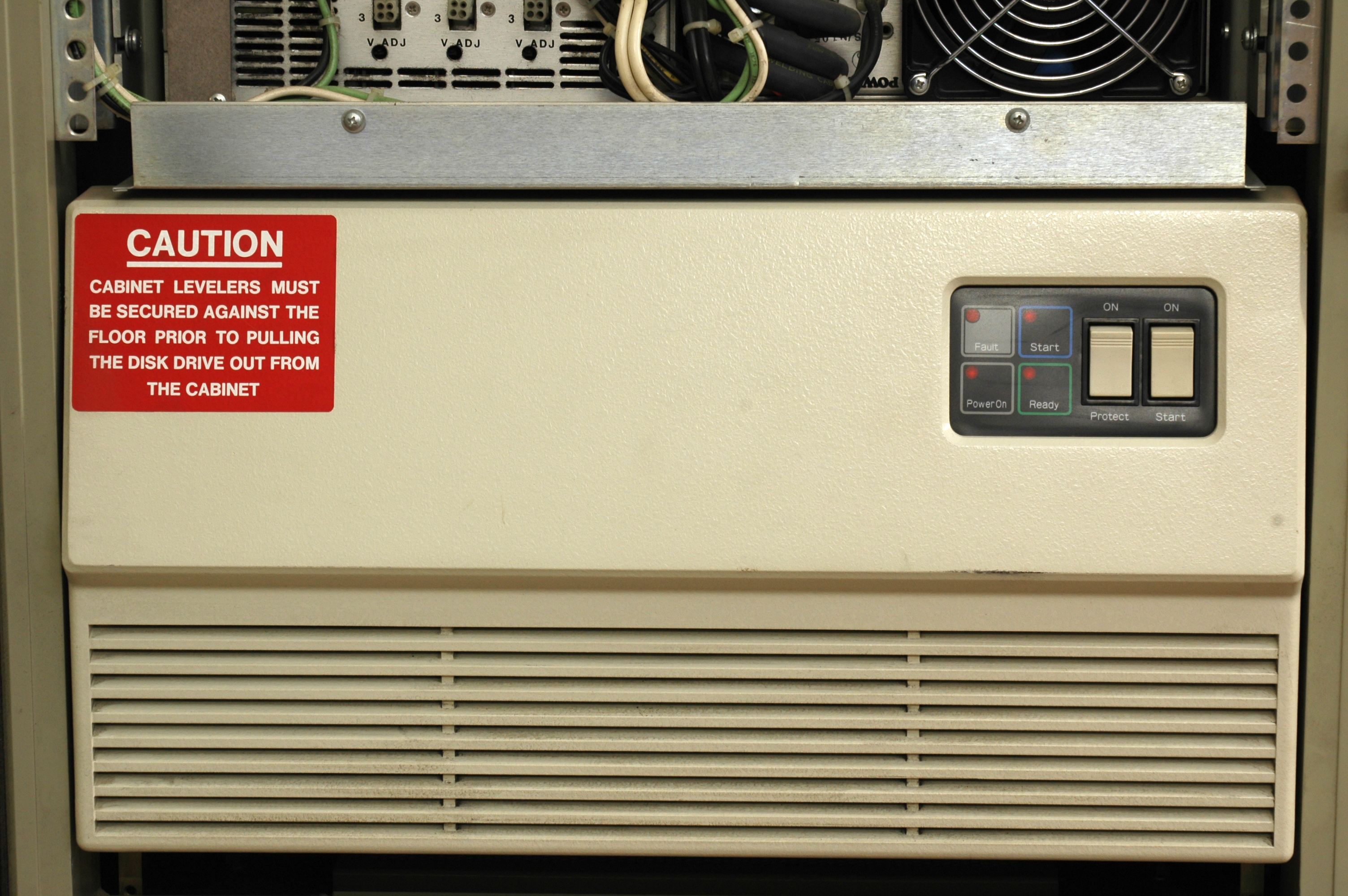 Fujitsu Eagle disk drive, in a Symbolics 3670 lisp machine. From the collection of the RCS/RI.